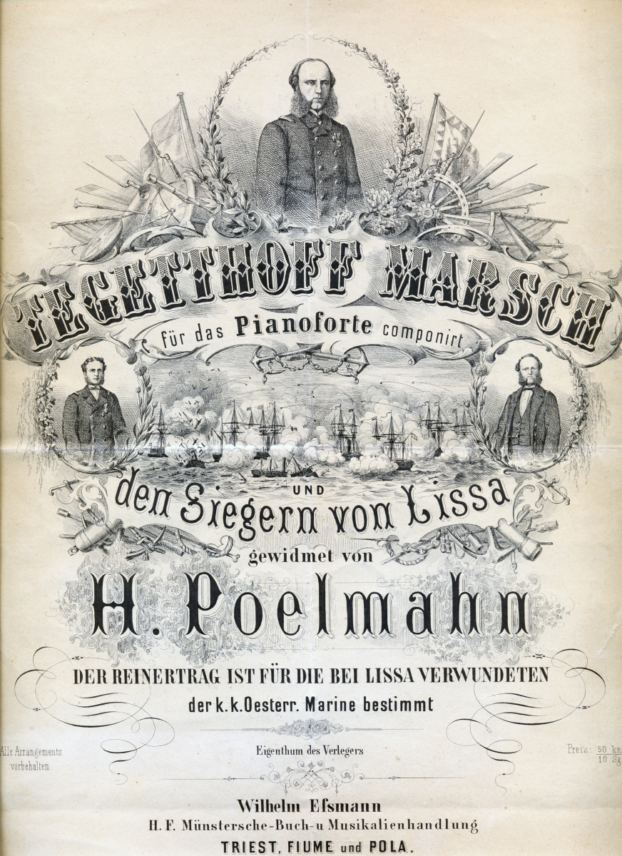 March composed in honor of Admiral Wilhelm von Tegetthoff in memory of the Austrian victory of Lissa (1866).